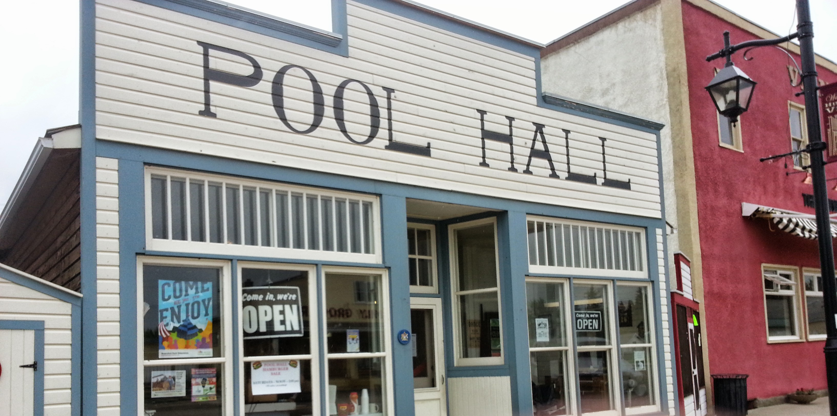 This is the Pool Hall and Barbershop in the village of Vilna, AB